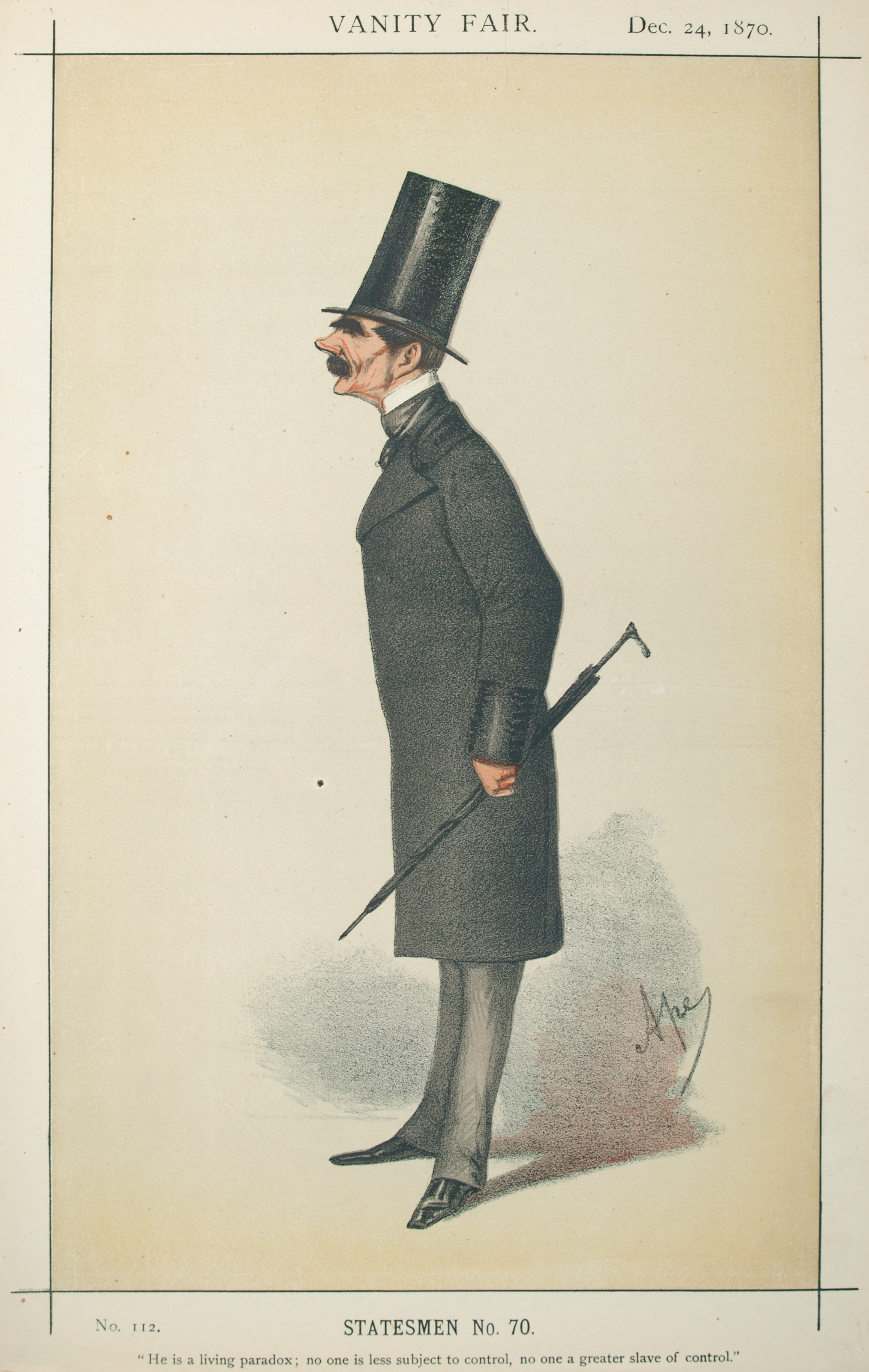 Statesmen No.70: Caricature of Sir Henry Storks. Caption reads: "He is a living paradox; no one less subject to control, no one a greater slave of control."